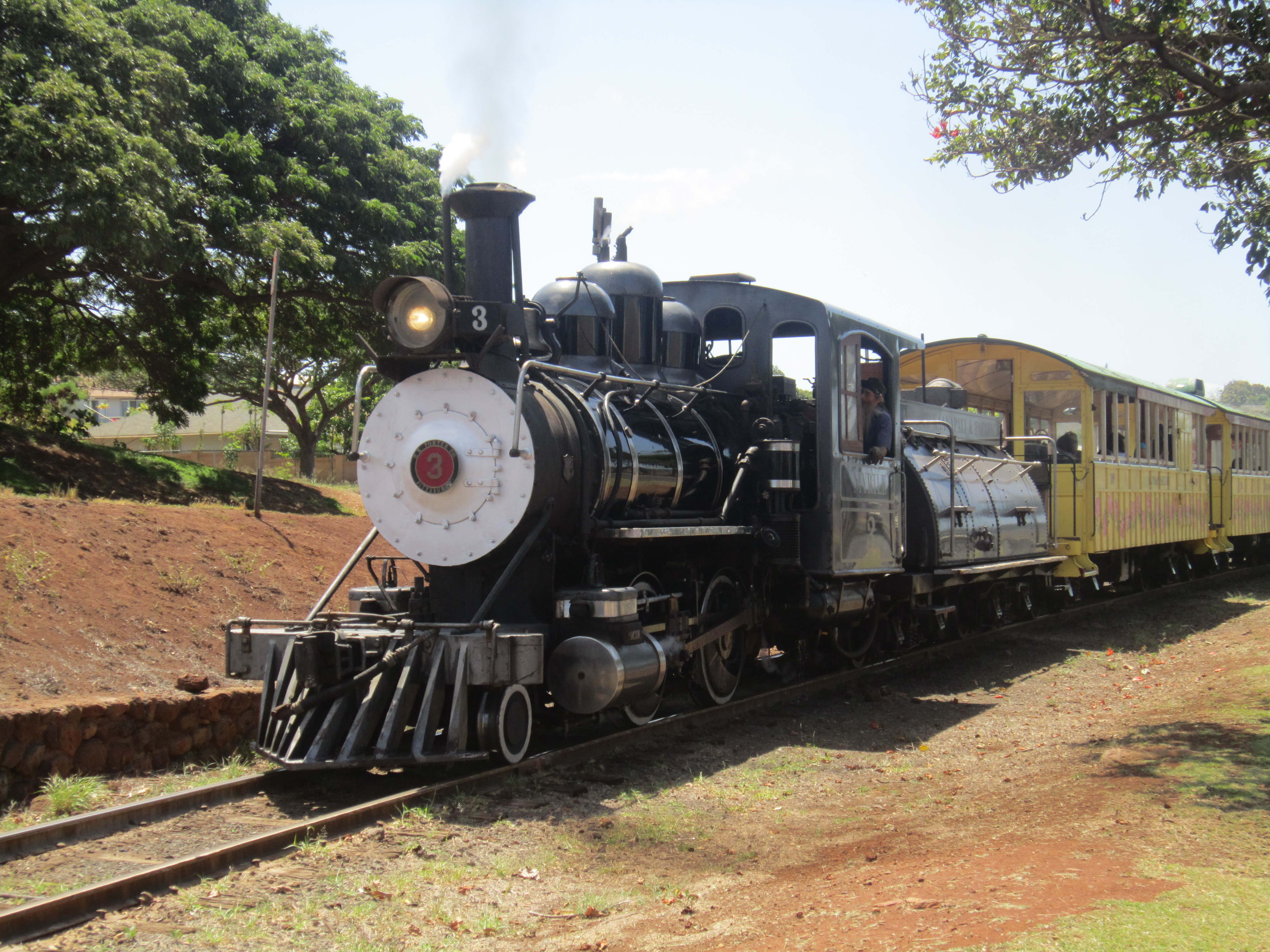 Locomotive #3 passing by the post office in Lahaina, HI.